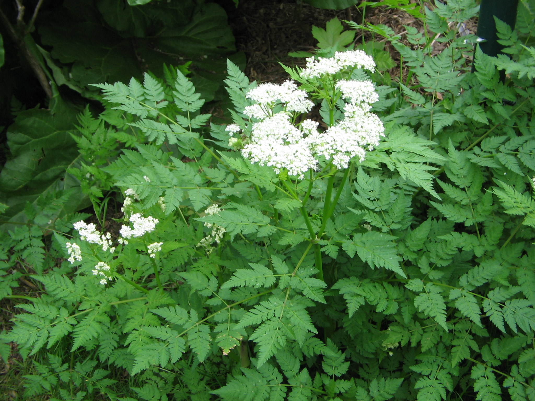 Myrrhis odorata